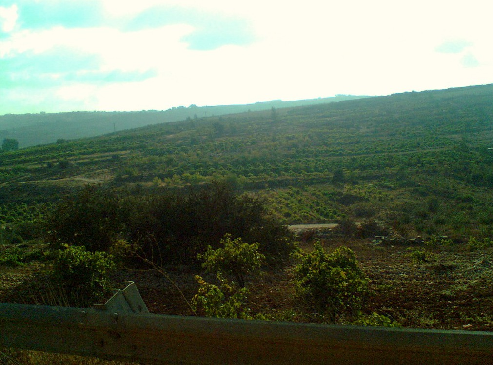 Grapes in Hebron